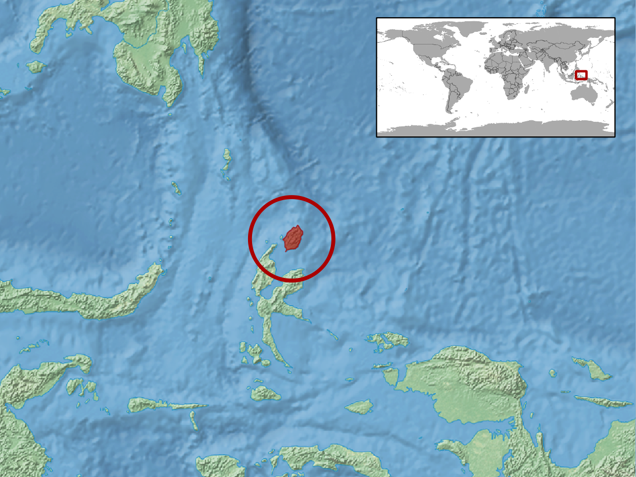 geographic distribution of Cyrtodactylus deveti (Native: Indonesia (Maluku))